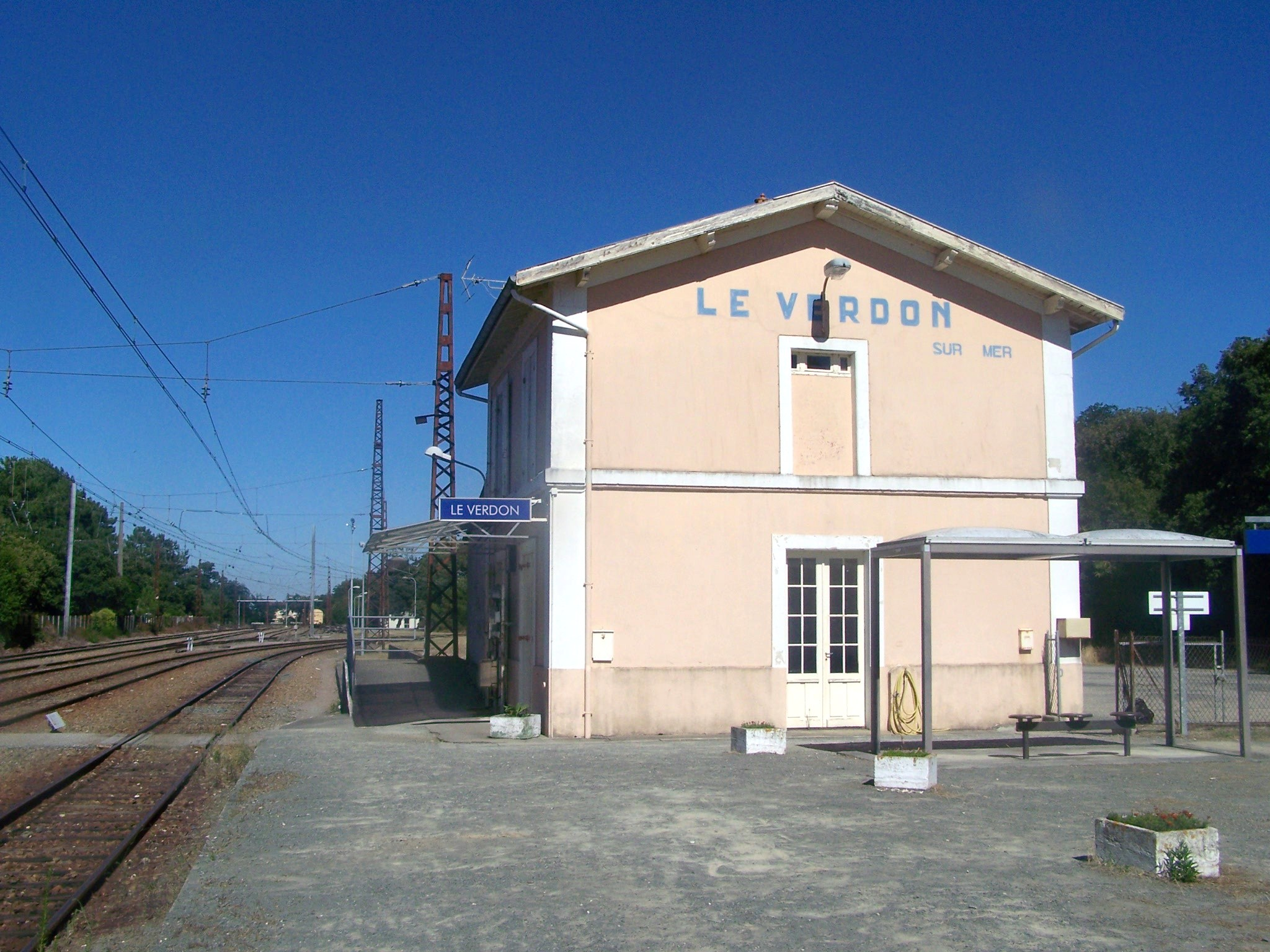 Picture of Le Verdon railway station in Gironde, France.